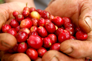 Red coffee cherries are mature coffee berries, fit to be pulped according to the 'wet method', to obtain 'washed coffee', the standard for specialty coffee.